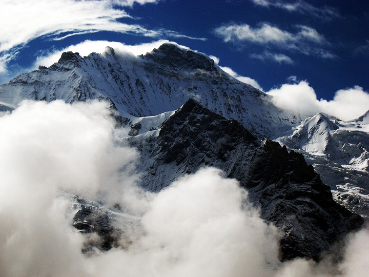 Jungfrau from north-east